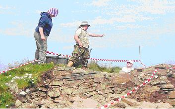 Excavation of Dùn Èistean tower, on an inter-tidal sea stack on the north east coast of the Isle of Lewis.